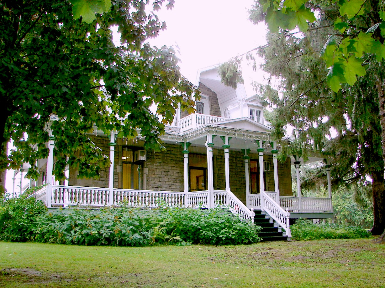 Municipal office of Saint-Telesphore, Quebec, Canada